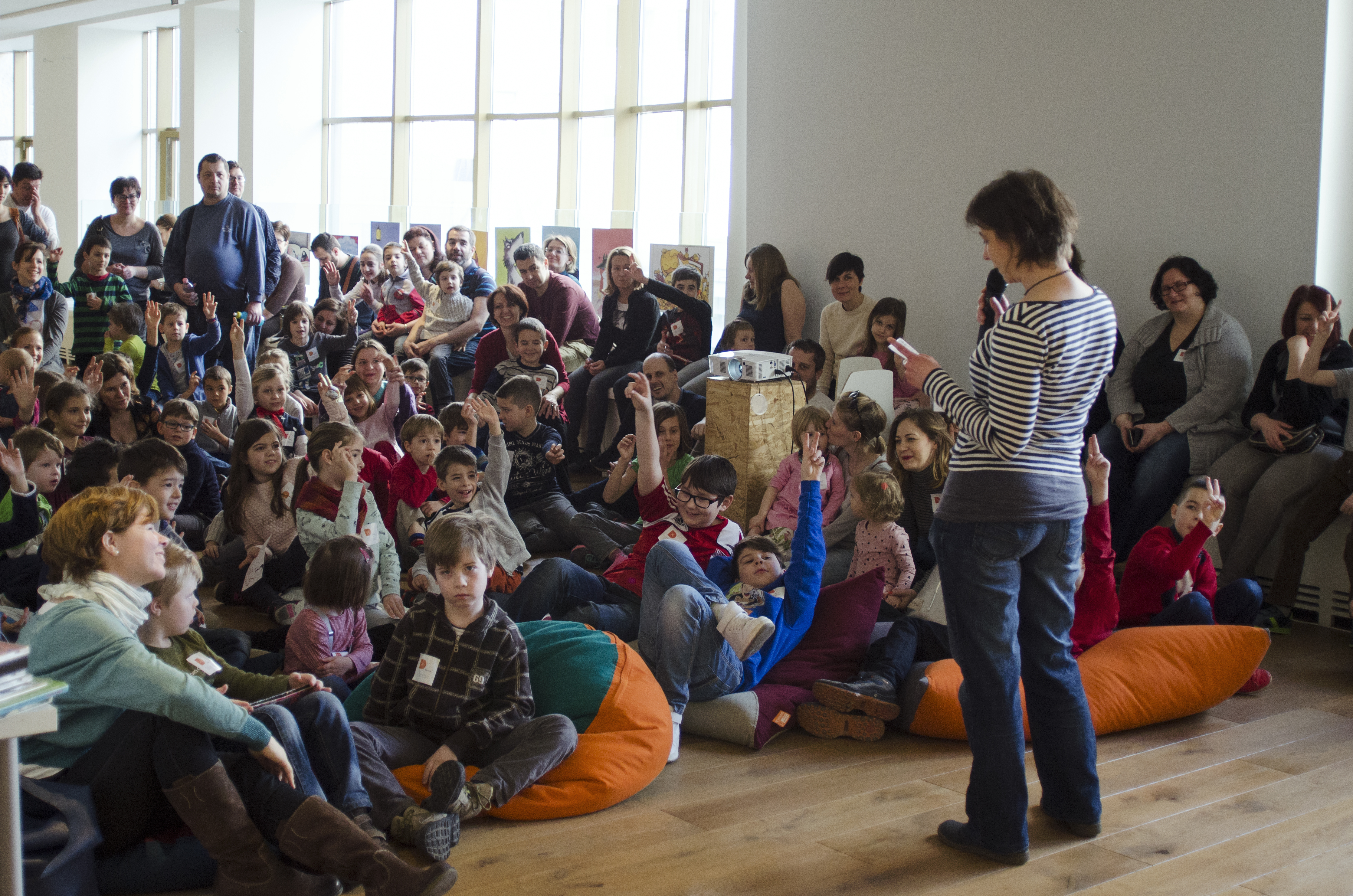 Világjáró Gyerekek című családi program a Deák 17 Gyermek és Ifjúsági Művészeti Galériában